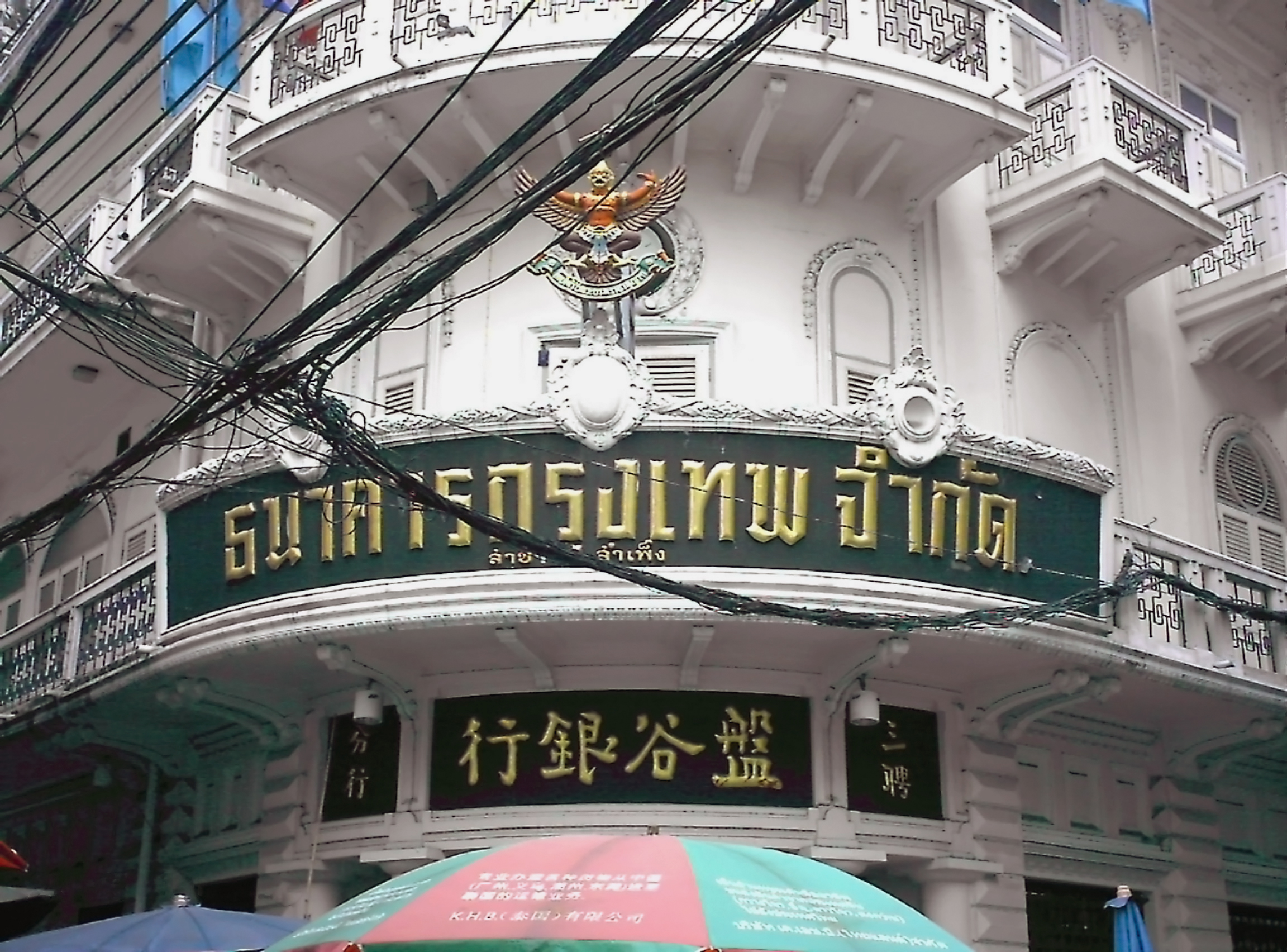 Bangkok Bank(Sampeng Lane Branch), Thanon Mangkon, Bangkok, Thailand 中文（香港）: 泰國 曼谷 演說街 盤谷銀行(三聘分行)